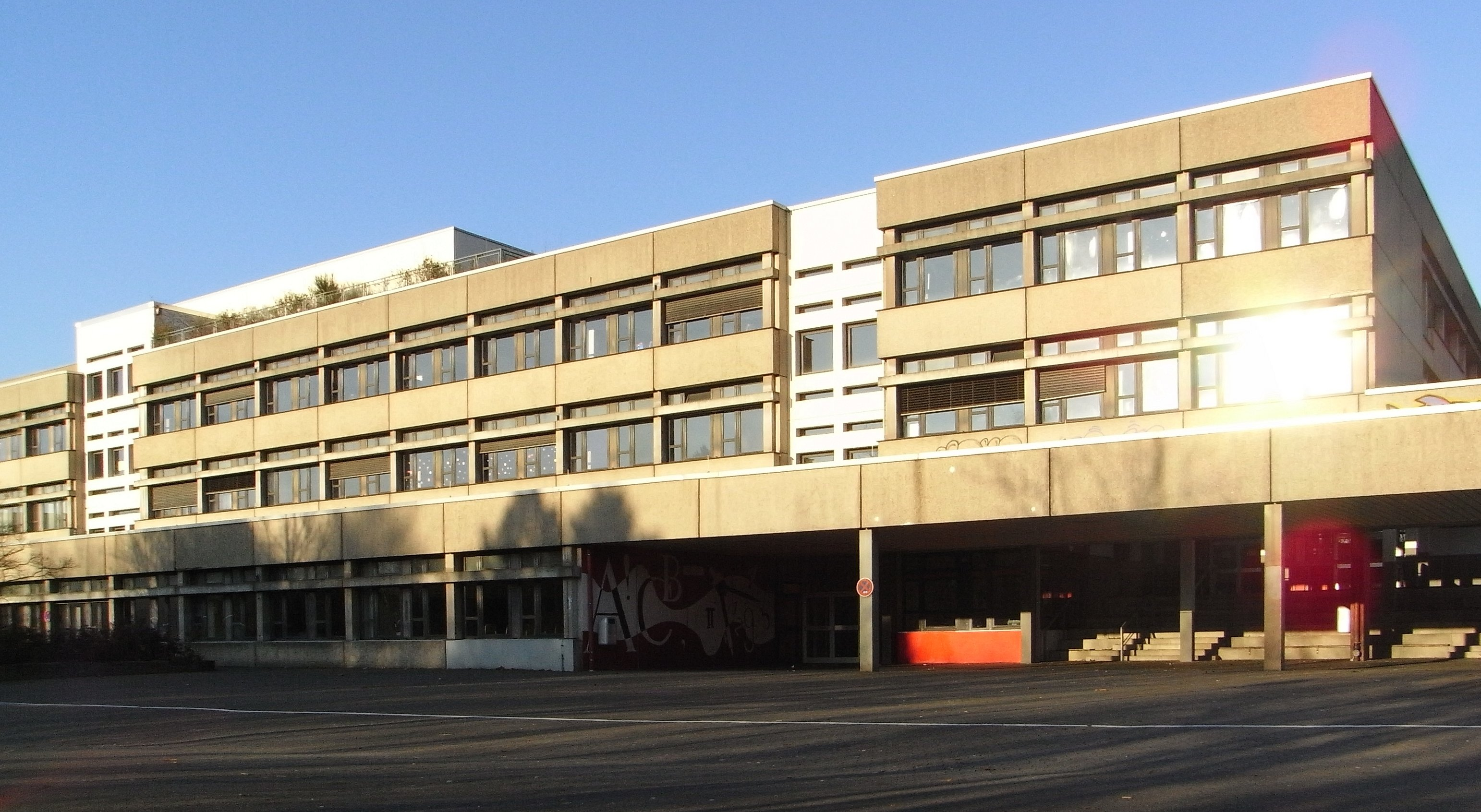 This is a photo of "Städtisches Gymnasium" in Kreuztal, Germany.